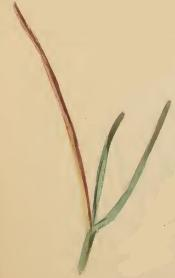 Stainton’s Natural History of the Tineina (1855–1873): Elachista subnigrella mined leaves of Bromus erectus